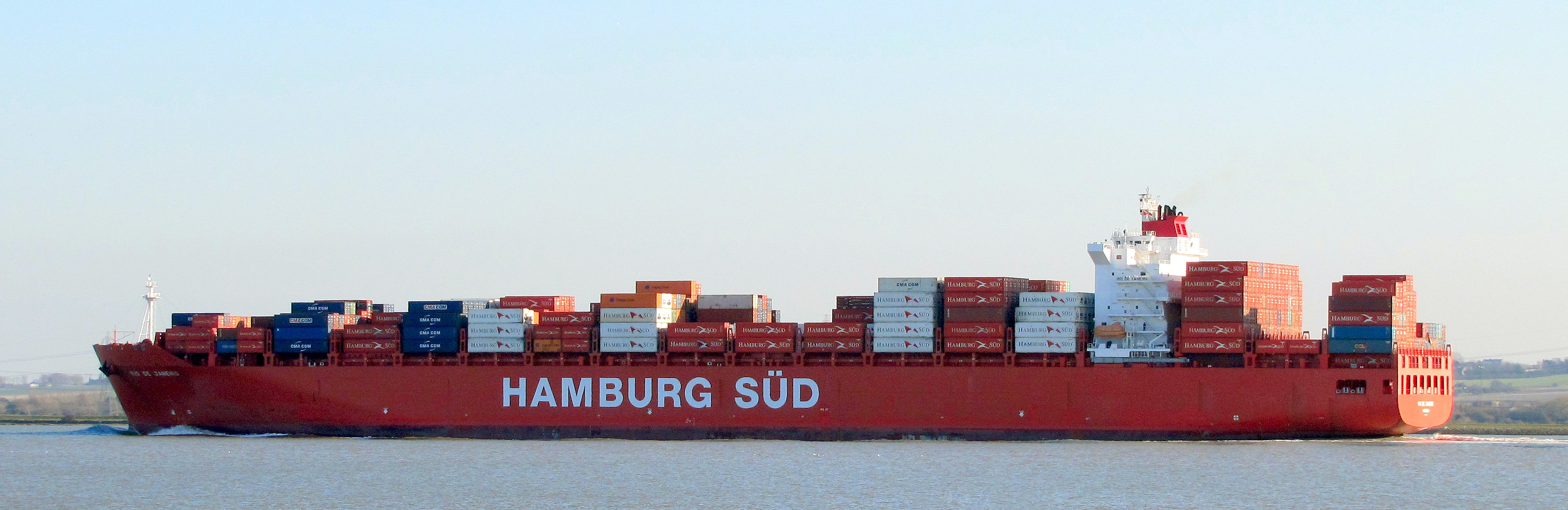 Container ship Rio De Janeiro leaves Tilbury